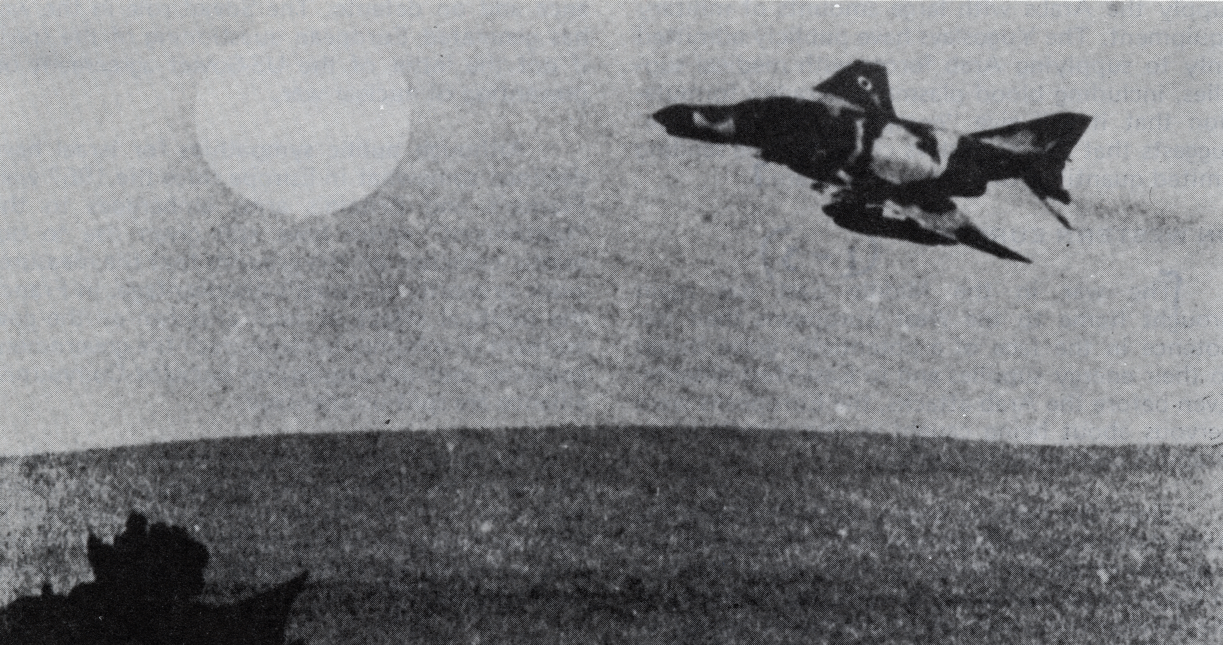 Israeli F-4 Phantom on patrol during the Arab-Israeli War. From the booklet "President Nixon and the Role of Intelligence in the 1973 Arab-Israeli War." For more information, visit